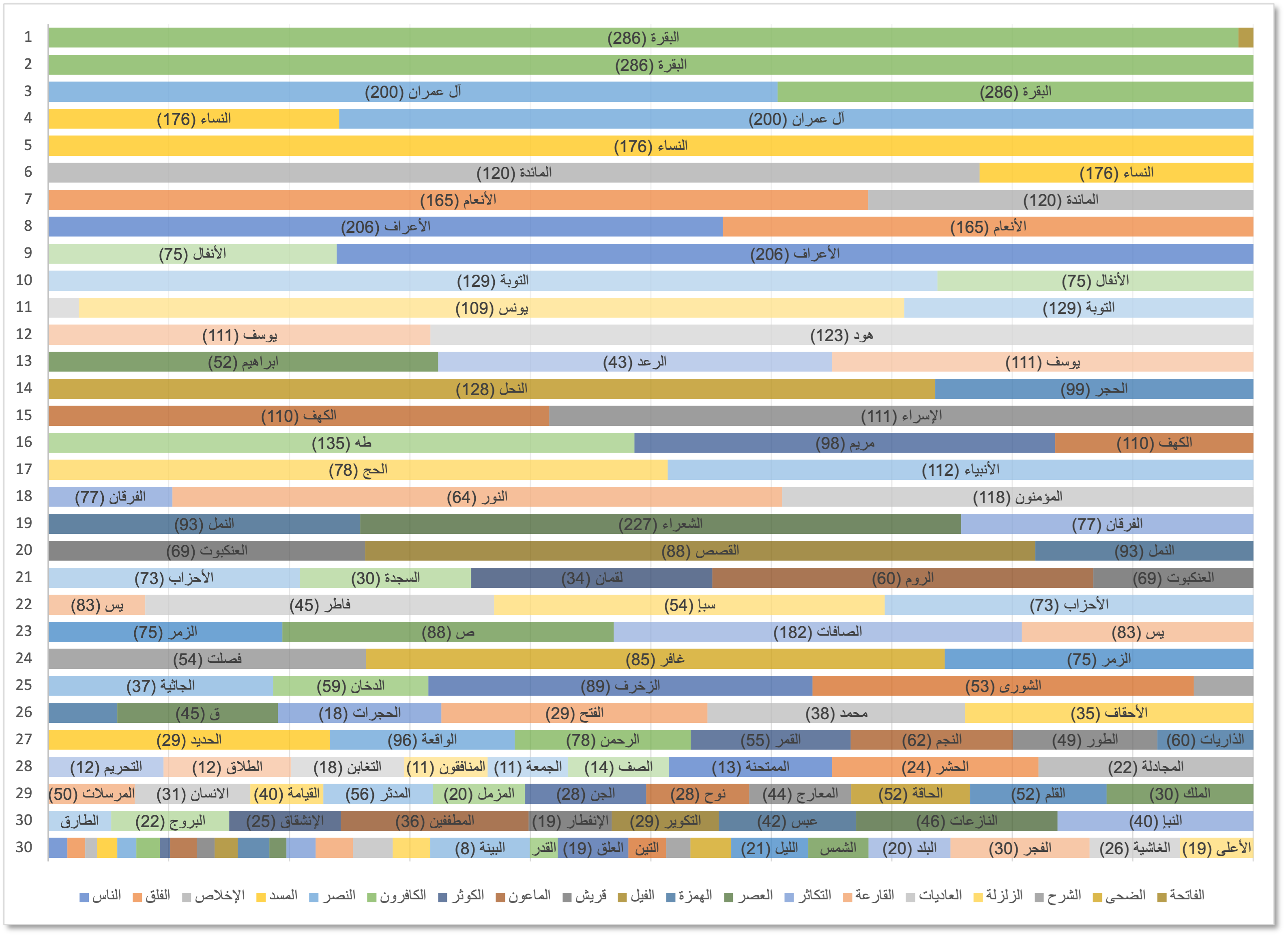 Distribution of surah across ajzāʼ, with the length of the bar corresponding to a surah being propotionate to the number of letters of the surah in the juz divided by the total number of letters in the juz.